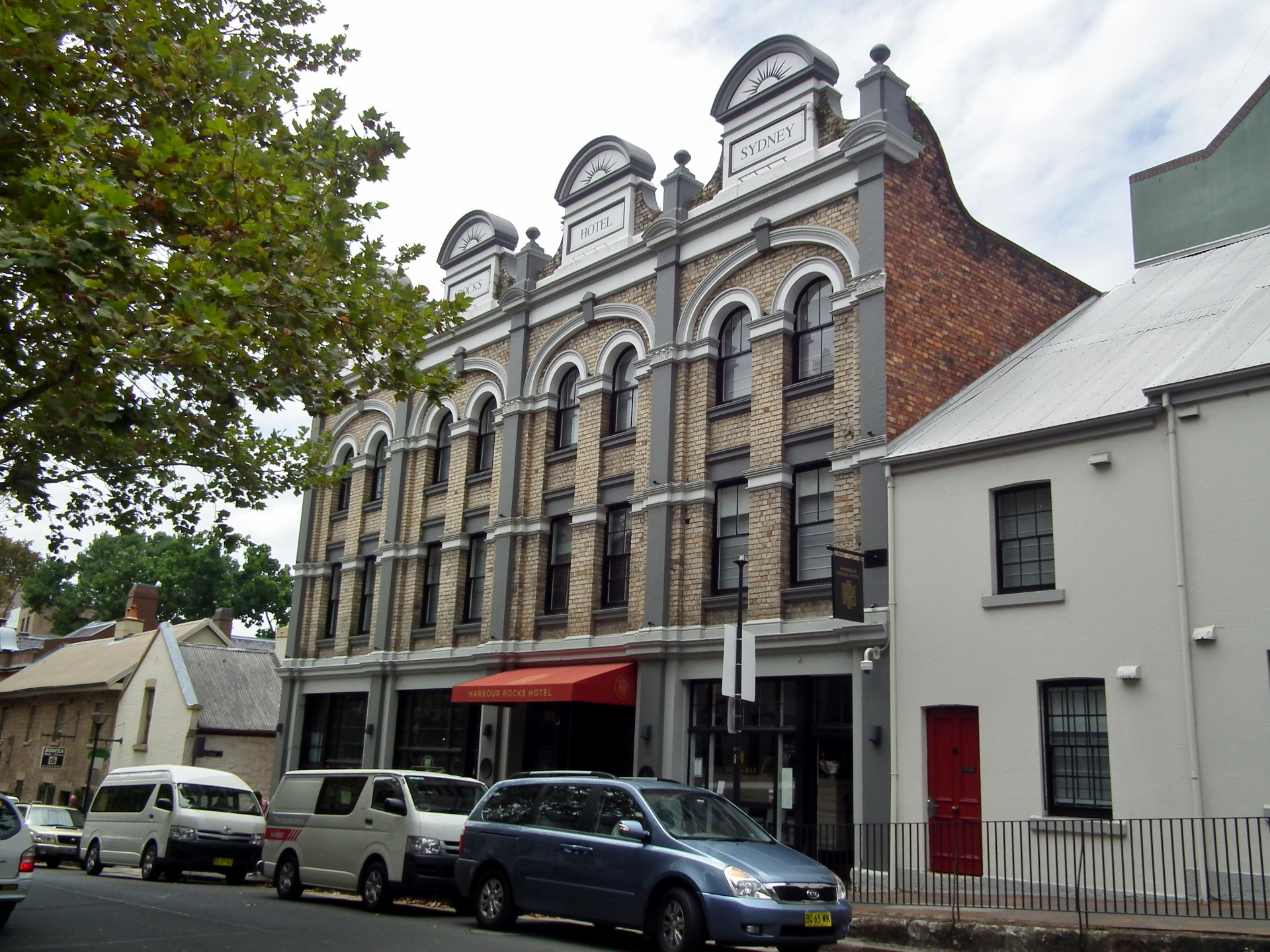 Evans' Stores - The Rocks NSW. Built 1890. Now part of the Harbour Rocks Hotel complex. Located at 34-40 Harrington Street The Rocks.